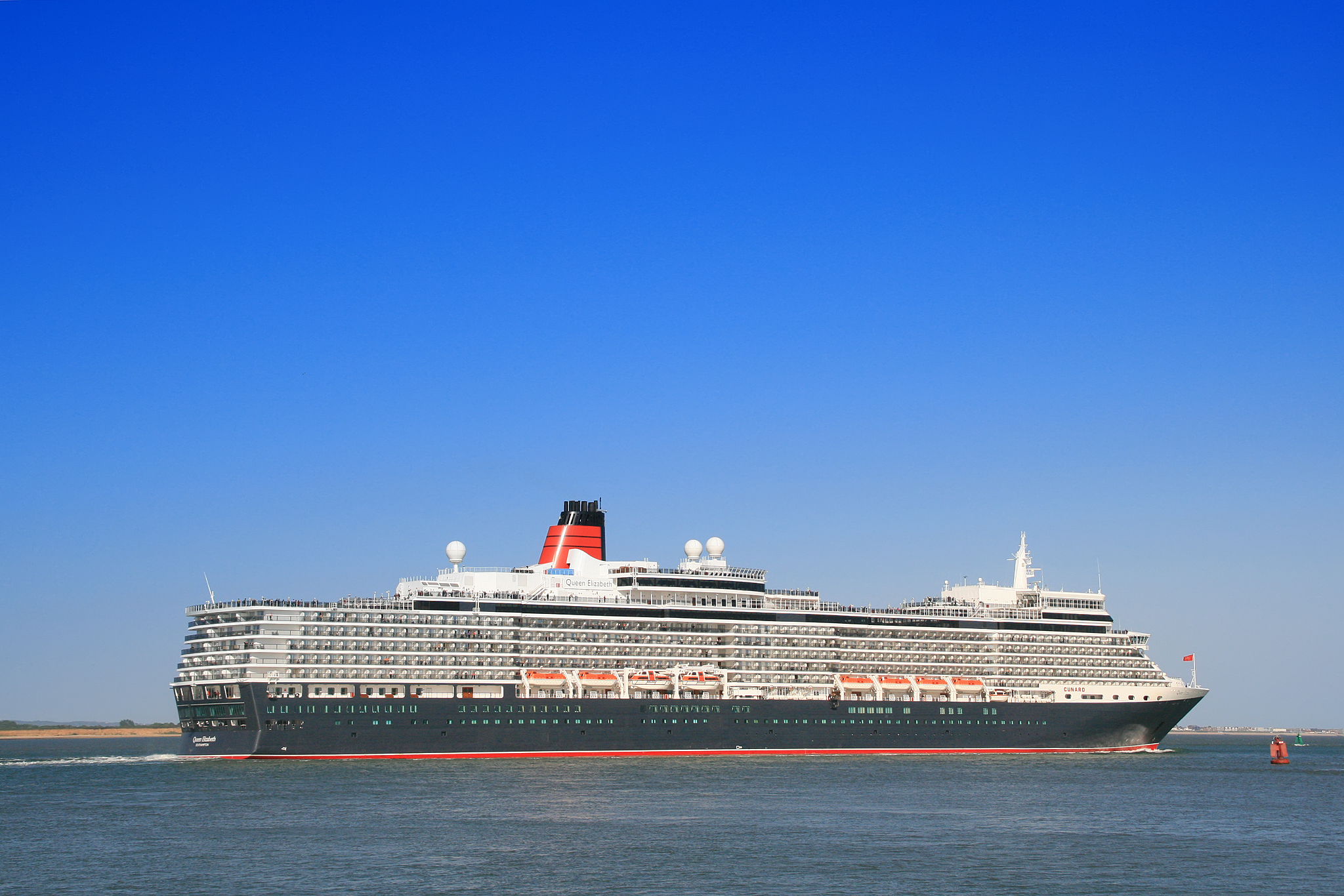 Cunard cruise ship Queen Elizabeth, 92,000 gross tonnes passing Calshot Spit light buoy in the Solent, outward bound from Southampton on 19 May 2011. Wikipedia editors are reminded that the copyright remains with the photographer, and that the terms of the Creative Commons Attribution-ShareAlike 3.0 Unported Licence that allow editors to reuse this image apply to Wikipedia editors also, as they do to other reusers of this image. Breaches of the licence terms are not only unlawful, but are also antisocial, in that breaches discourage photographers from making their images freely available to everyone without payment. Non-Wikipedia users are requested to advise Brian Burnell of its use other than on Wikipedia.